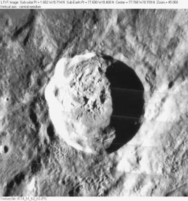 Image LO-IV-174 Glushko crater